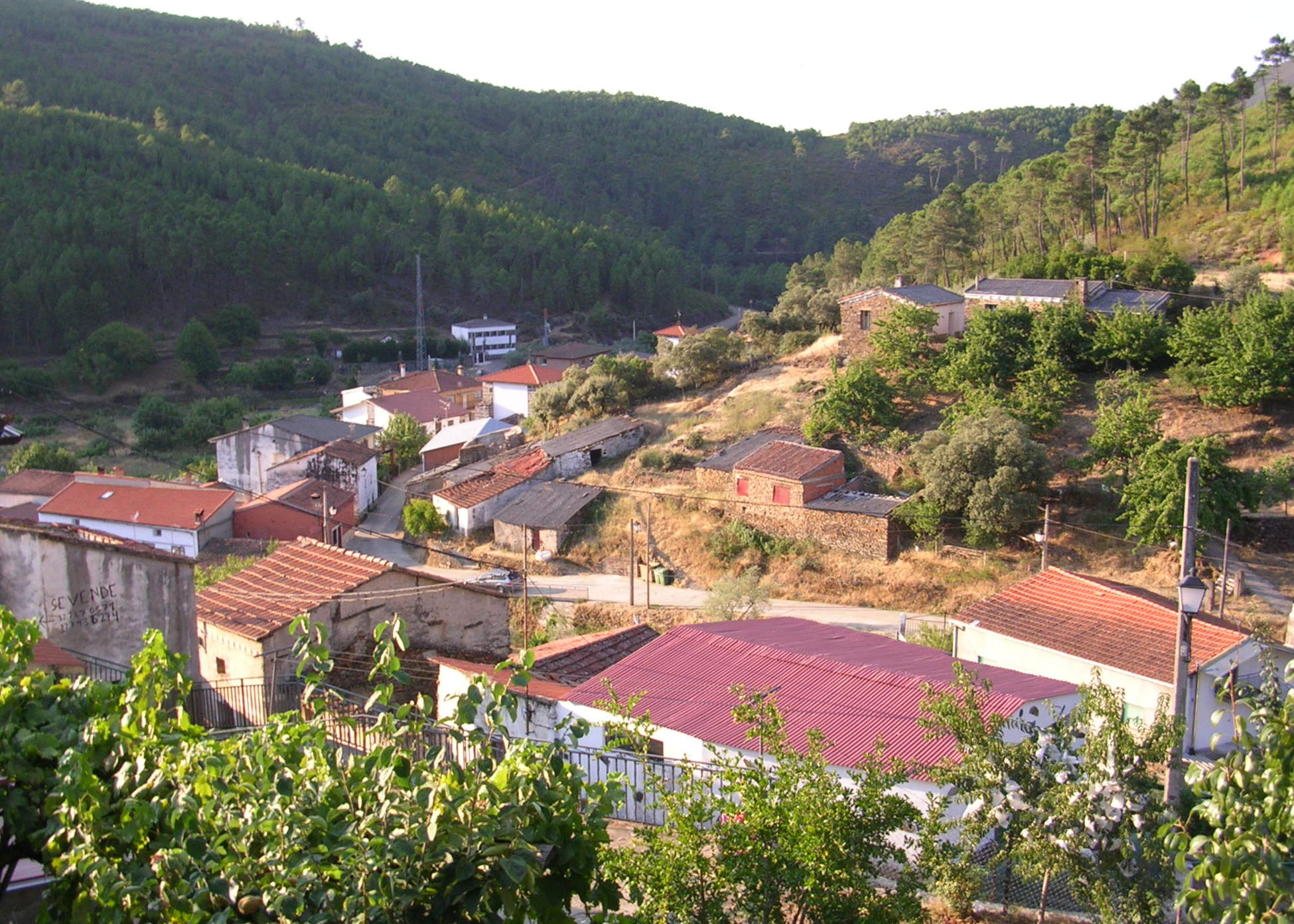 Horcajo village in Las Hurdes, Extremadura